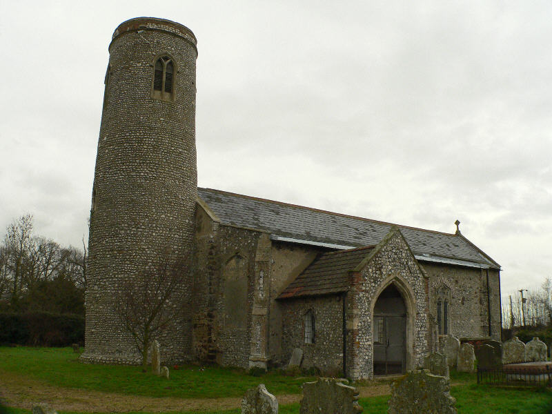 Thwaite All Saints